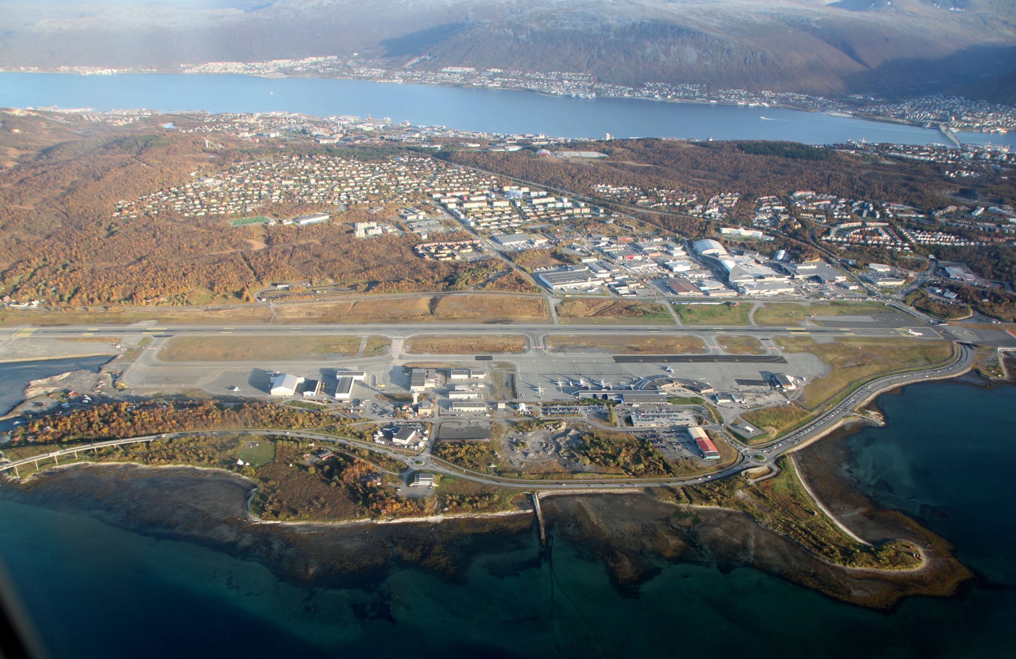 Aerial view of Tromsø airport Langnes, northern Norway